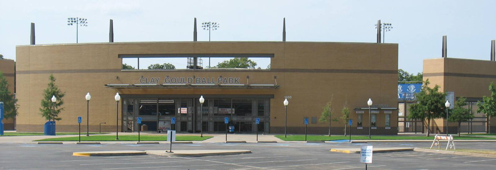 The exterior of Clay Gould ballpark, home of the UTA Mavericks baseball team.